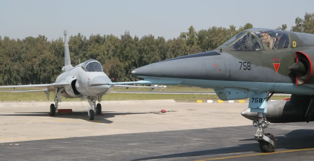 Two combat aircraft of the Pakistan Air Force on an airbase in Pakistan during flight operations. A JF-17 Thunder fighter is parked in the background. In the foreground a Dassault Mirage 5 fighter taxies past the JF-17. The infra-red sensor housing under the cockpit of the Mirage 5 indicates it was upgraded under Project ROSE.